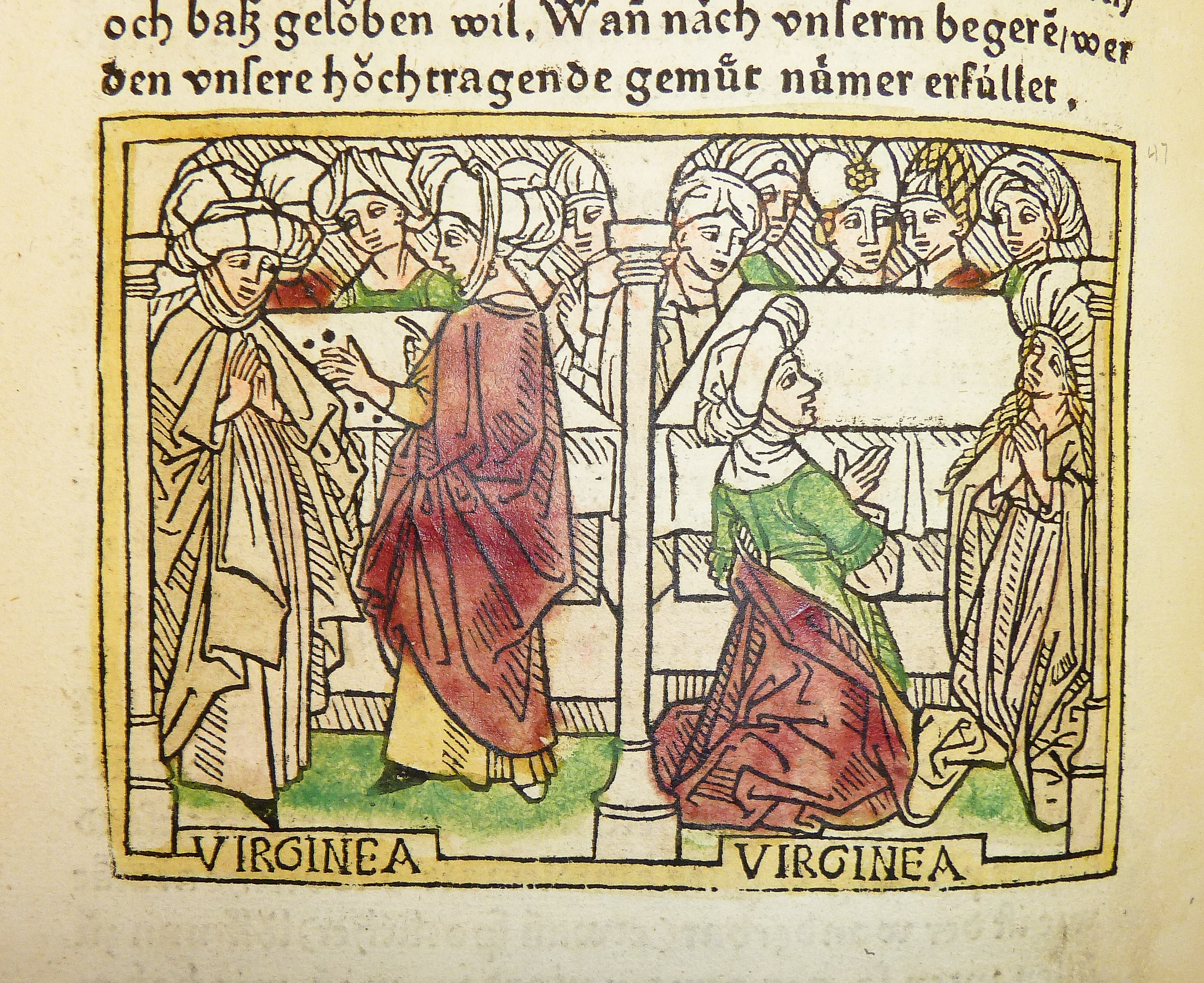 Woodcut illustration (leaf [k]2v, f. lxxxij) of Virginia, wife of Lucius Volumnius Flamma Violens, hand-colored in red, green, yellow and black, from an incunable German translation by Heinrich Steinhöwel of Giovanni Boccaccio's De mulieribus claris, printed by Johannes Zainer at Ulm ca. 1474 (cf. ISTC ib00720000). One of 76 woodcut illustrations (1 on leaf [e]8v dated 1473), each 80 x 110 mm., depicting scenes from the life of the women chronicled (for a full list of subjects, cf. W.L. Schreiber, Handbuch der Holz- und Metallschnitte des XV. Jahrhunderts (Nendeln: Kraus Reprints, 1969), no. 3506). "Pour la première moitie le nom se trouve inscrit à côte de la tête de chaque femme, pour le reste il es ajouté entre les deux réglettes. Il n'y en a que trois, qui n'ont qu'un seul trait carré."--Schreiber. Established form: Zainer, Johannes, ‡d d. 1541?. Penn Libraries call number: Inc B-720 All images from this book Penn Libraries catalog record